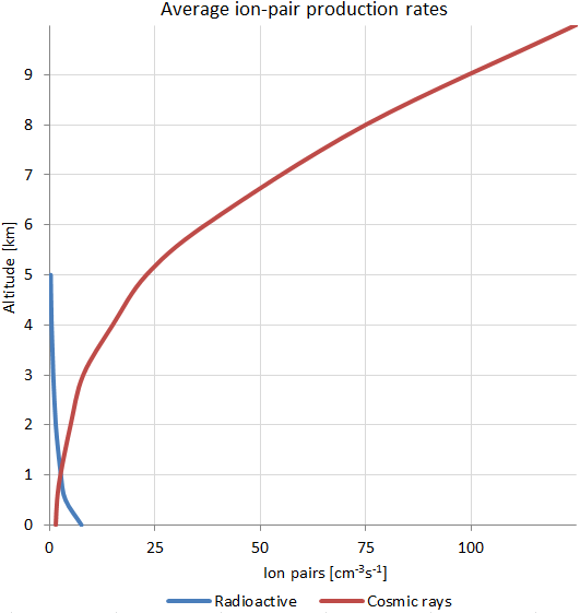 Average ion-pair production rates in lower atmosphere by radiation and cosmic radiation